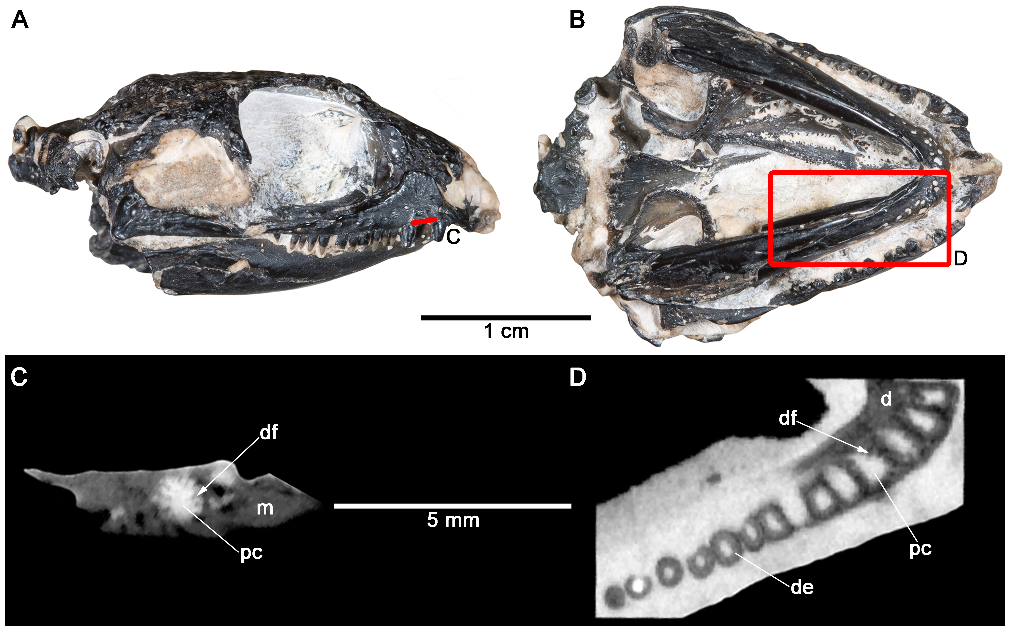 Cross-sectional views of the maxillary and dentary dentition of Feeserpeton oklahomensis (OMNH 73541) obtained via X-ray computed tomography (CT) scans. A: skull of F. oklahomensis in right lateral view showing from where the virtual sections of the maxilla were taken. B: skull of F. oklahomensis in ventral view showing from where the virtual sections of the dentary were taken. C: virtual cross-section of the base of one of the enlarged maxillary teeth showing the presence of tight dentine infolding. D: virtual cross-section of the bases of the dentary teeth showing the presence of dentine infolding. d, dentary; de, dentine; df, dentine fold; m, maxilla; pc, pulp cavity.